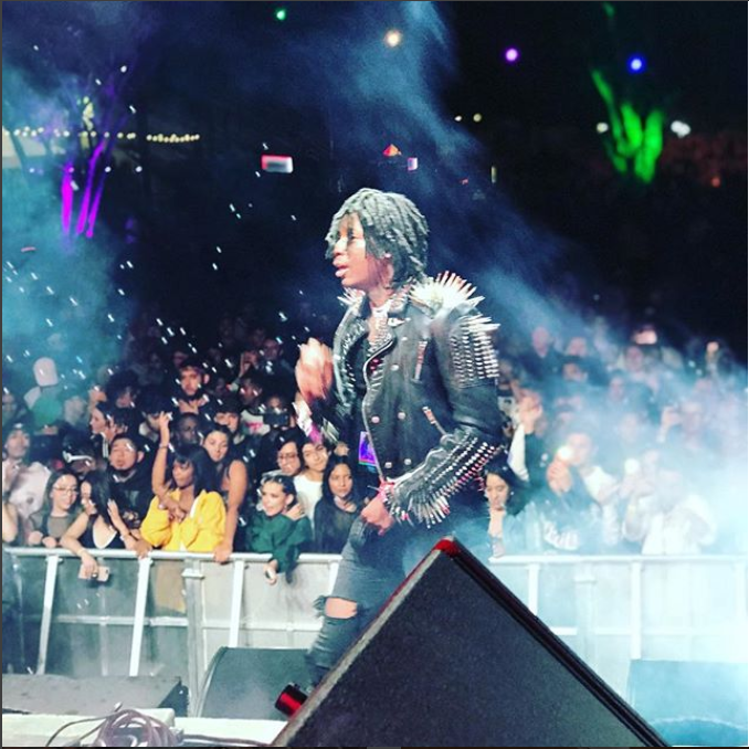 SahBabii the superstar